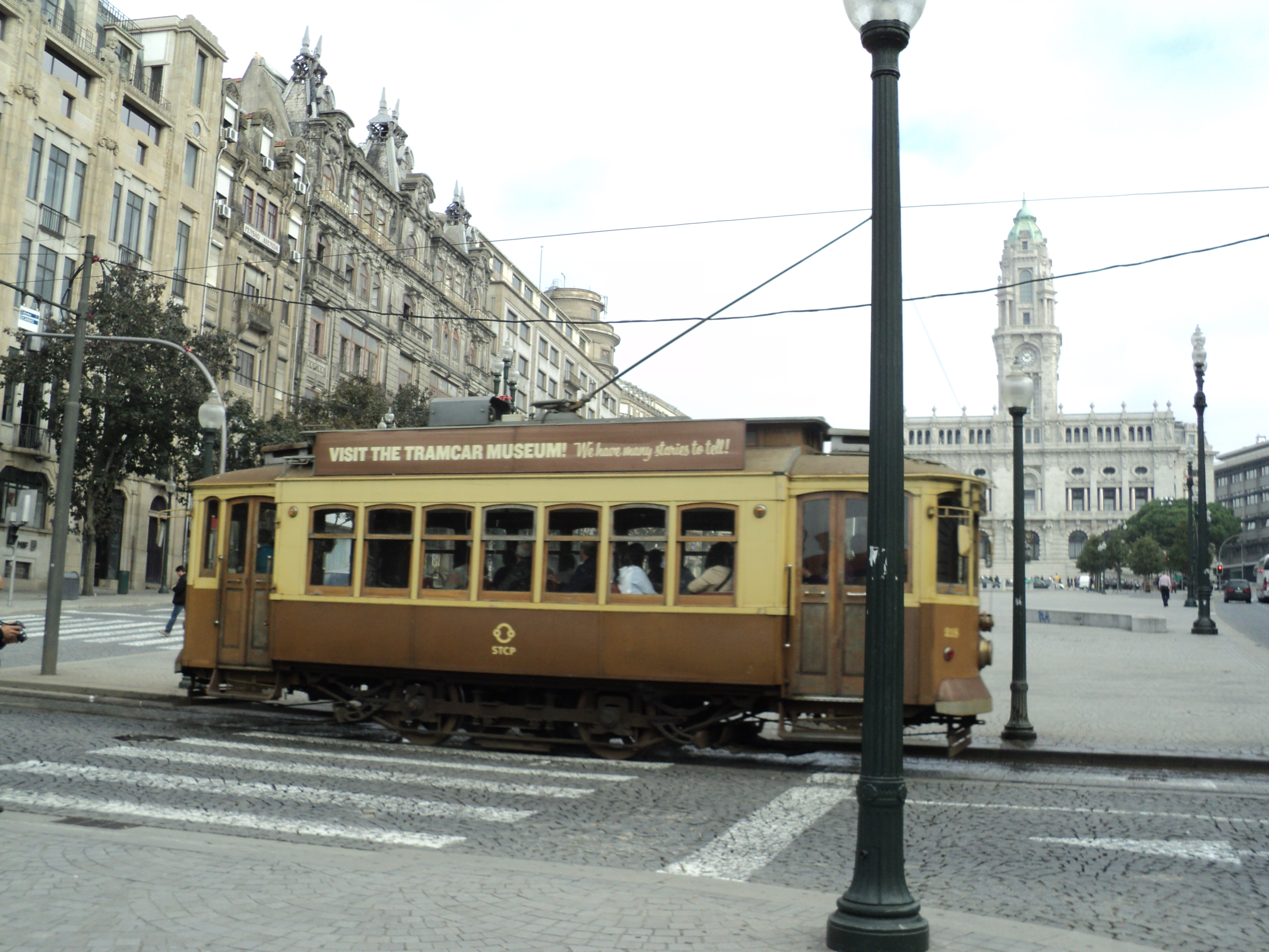 This file was uploaded for Wiki Loves Monuments in Portugal with the unique identifier 97019997. This building is classified as Incluído em sítios classificados.